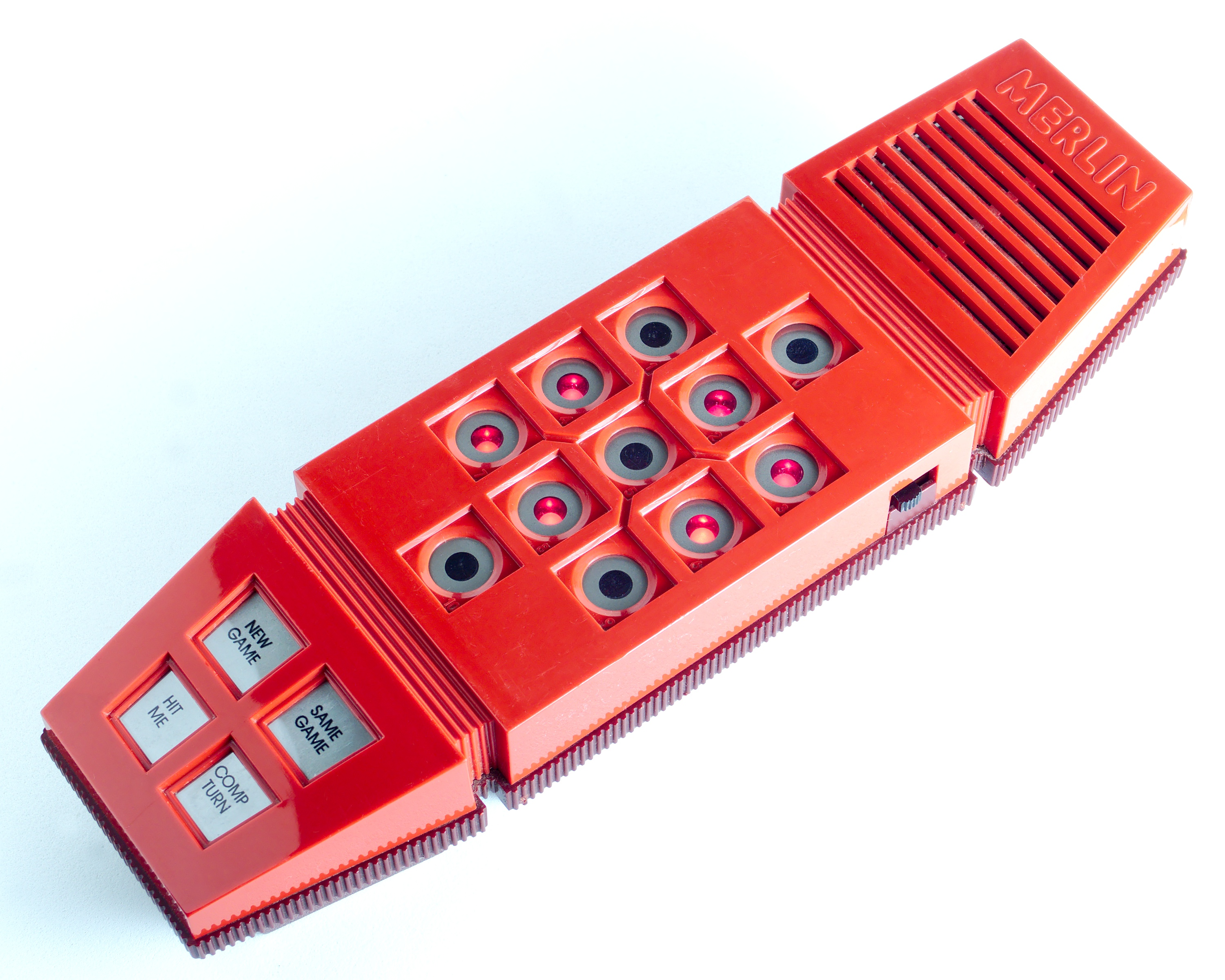 Merlin hand-held electronic game produced by Parker Brothers circa 1978.